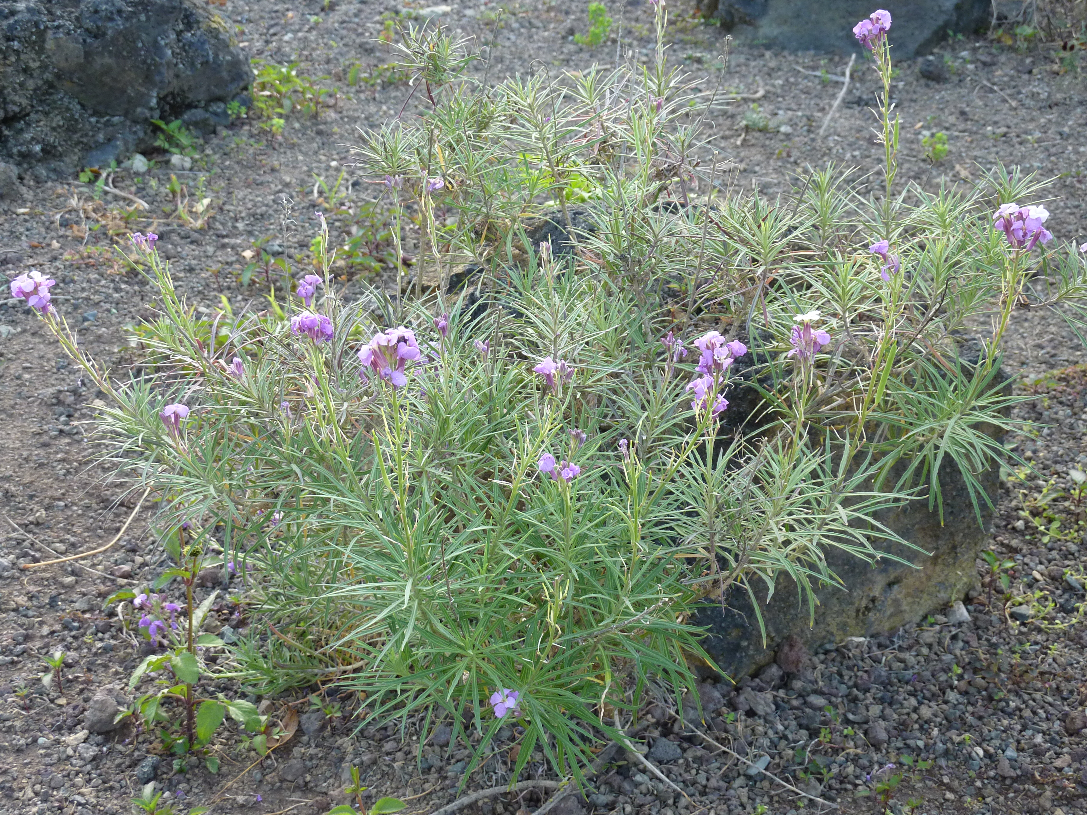 Erysimum caboverdeanum in the Jardín Botánico Canario Viera y Clavijo.